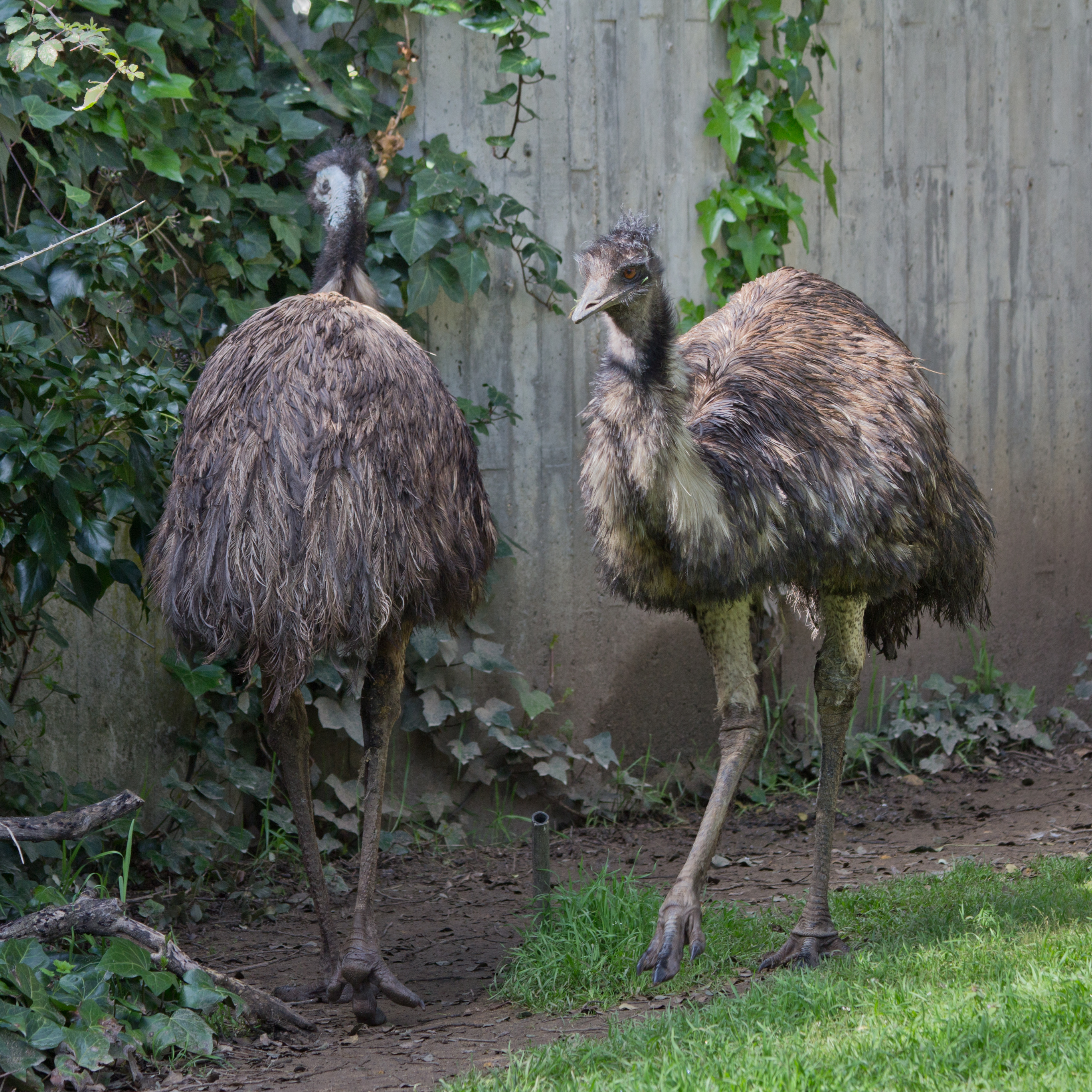 Emu (Dromaius novaehollandiae) in the Zoo of Madrid, Spain.